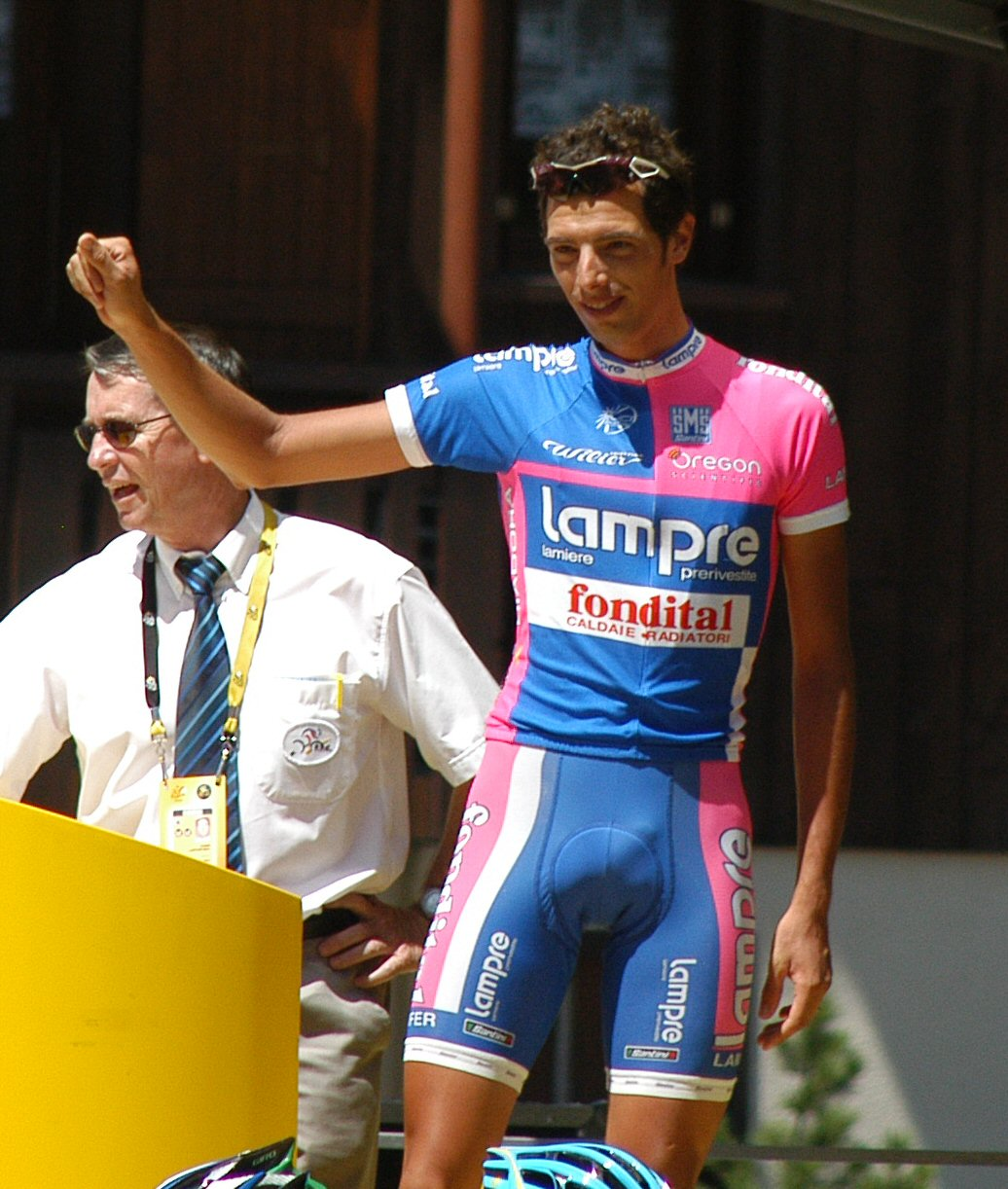 Alessandro Ballan at the start of stage 8 in Le Grand Bornand, Tour de France 2007.